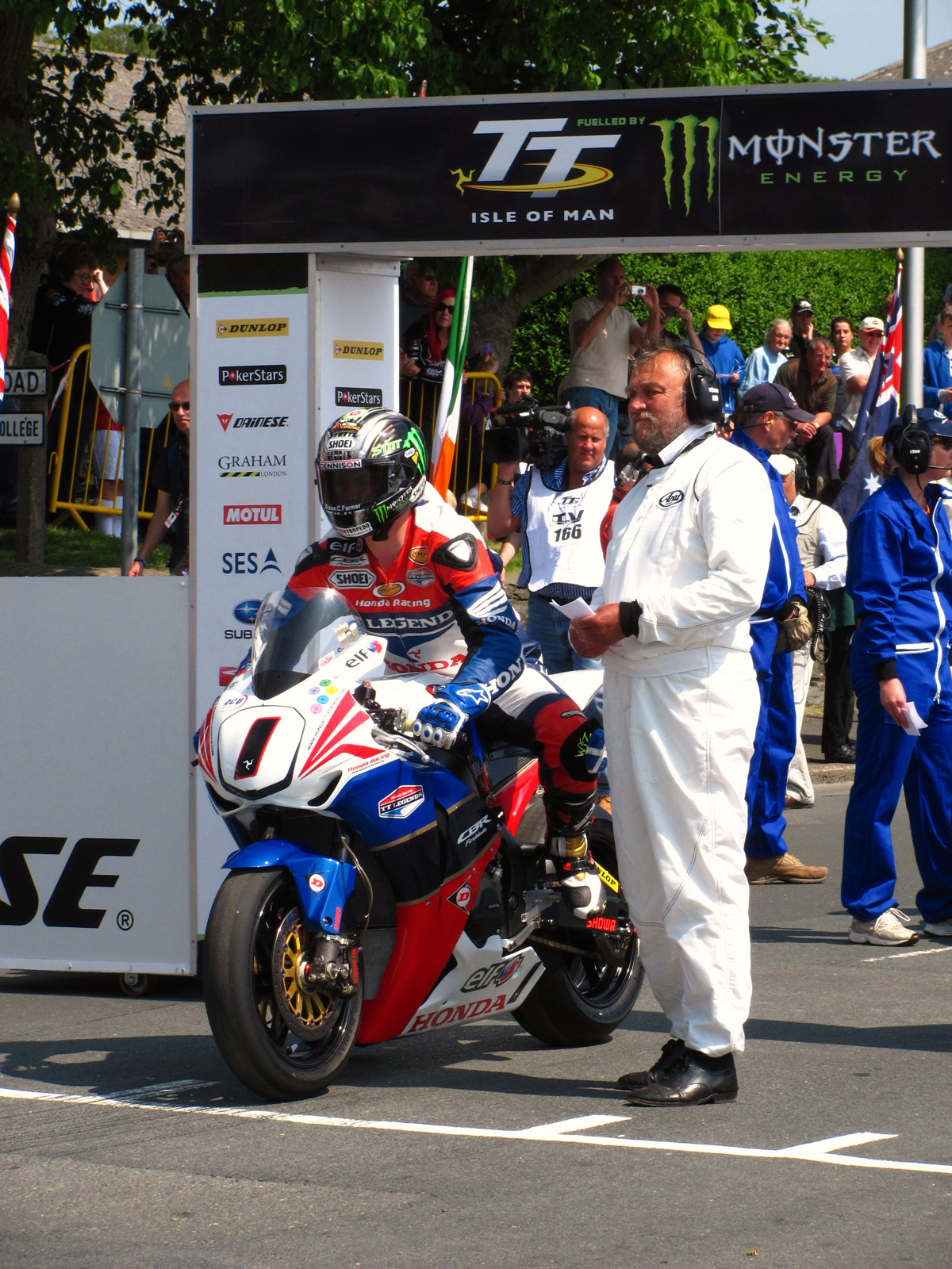 Start John McGuinness Superbike TT Race - Isle of Man TT Races